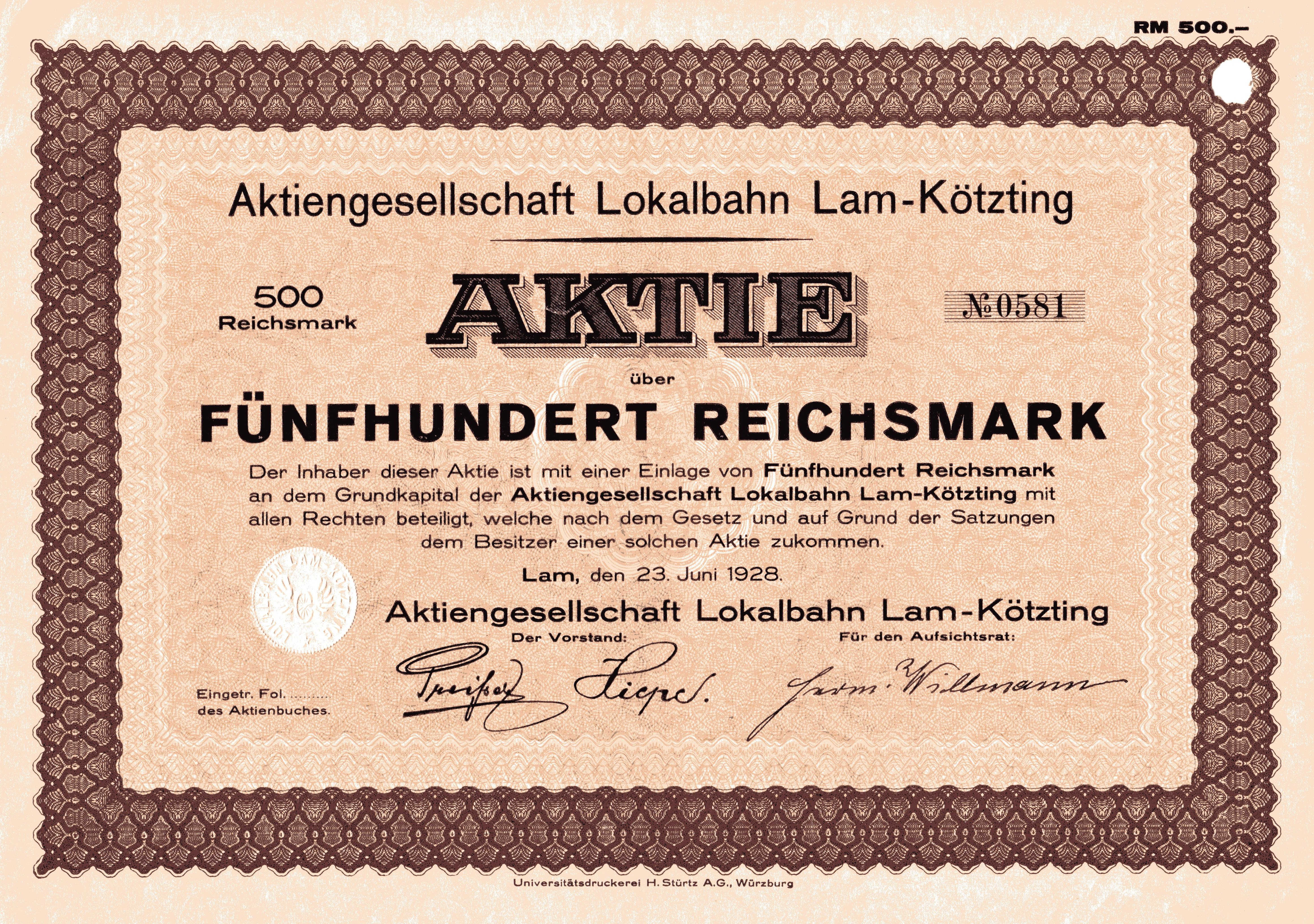 Share of the AG Lokalbahn Lam-Koetzting, issued 23. June 1928